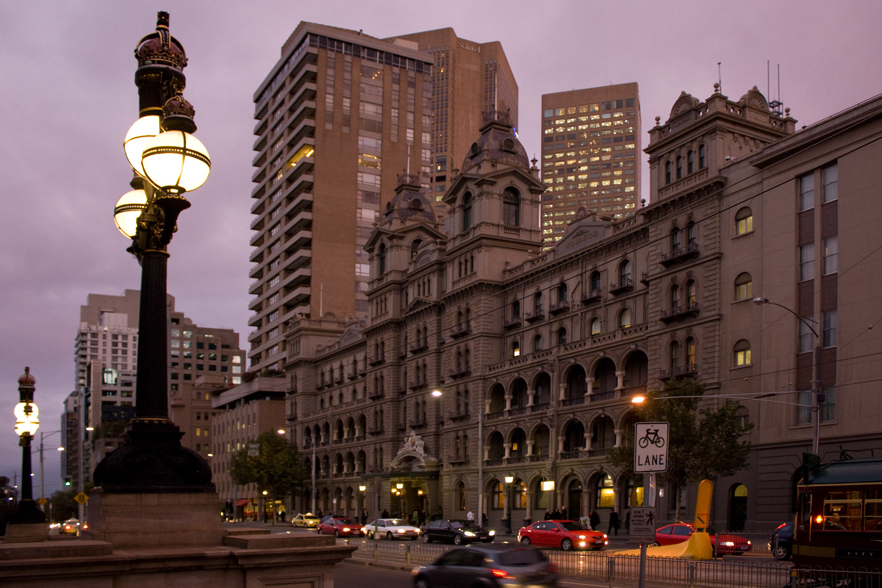 Windsor Hotel at dusk, Melbourne